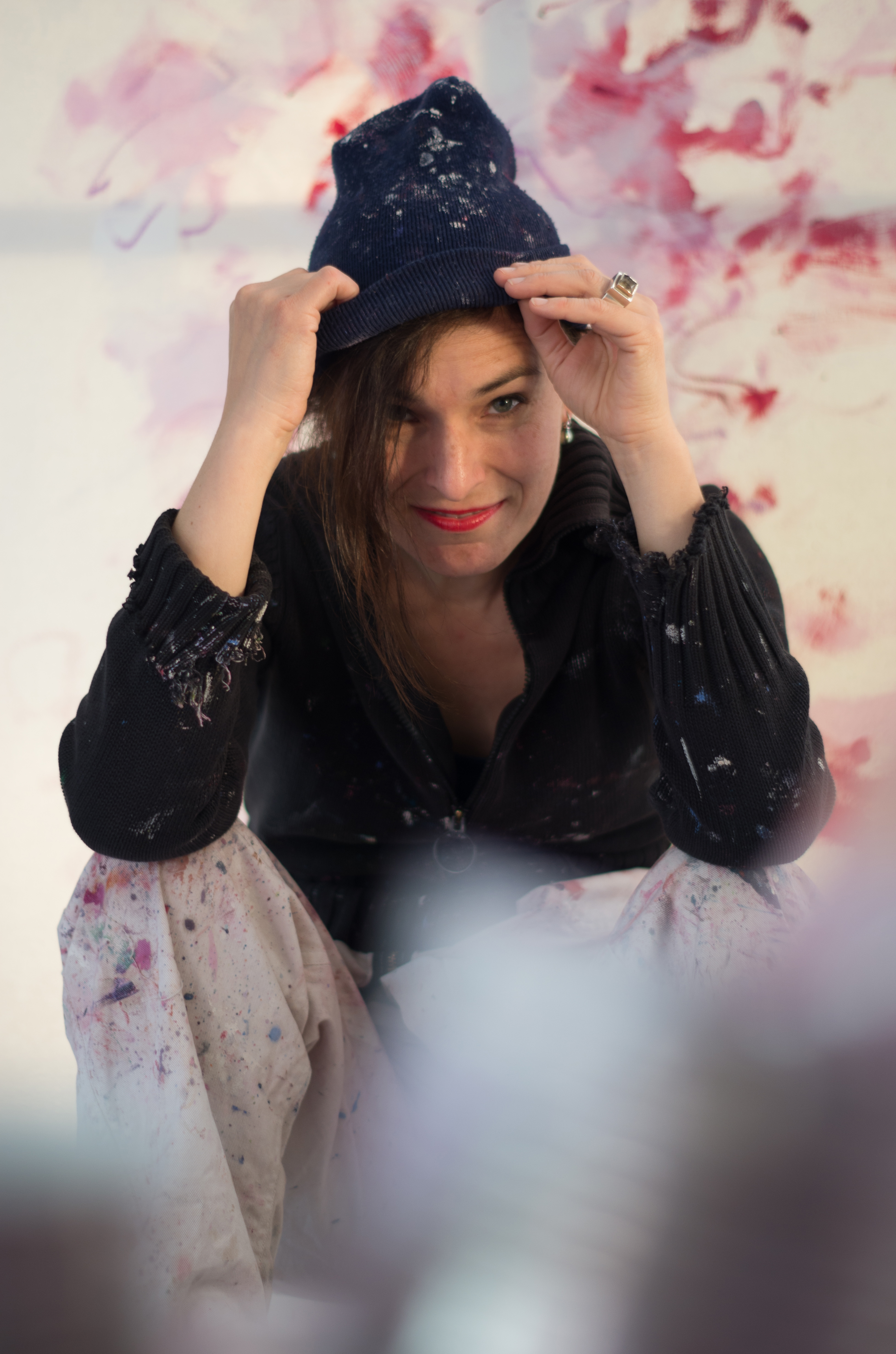 Ulrike Seyboth, Foto: Sabine Dobinsky